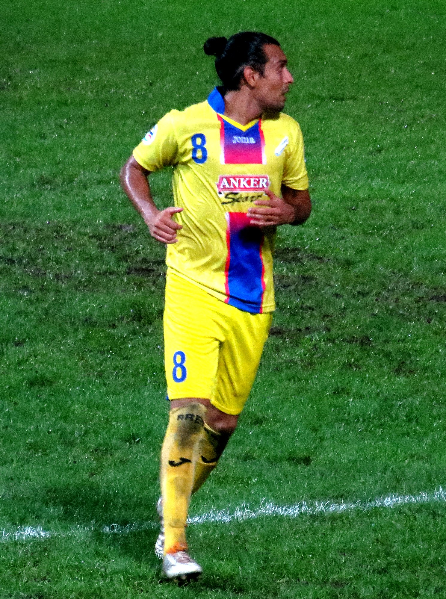 Argentina footballer Gustavo Fabián López playing for Arema against Kitchee